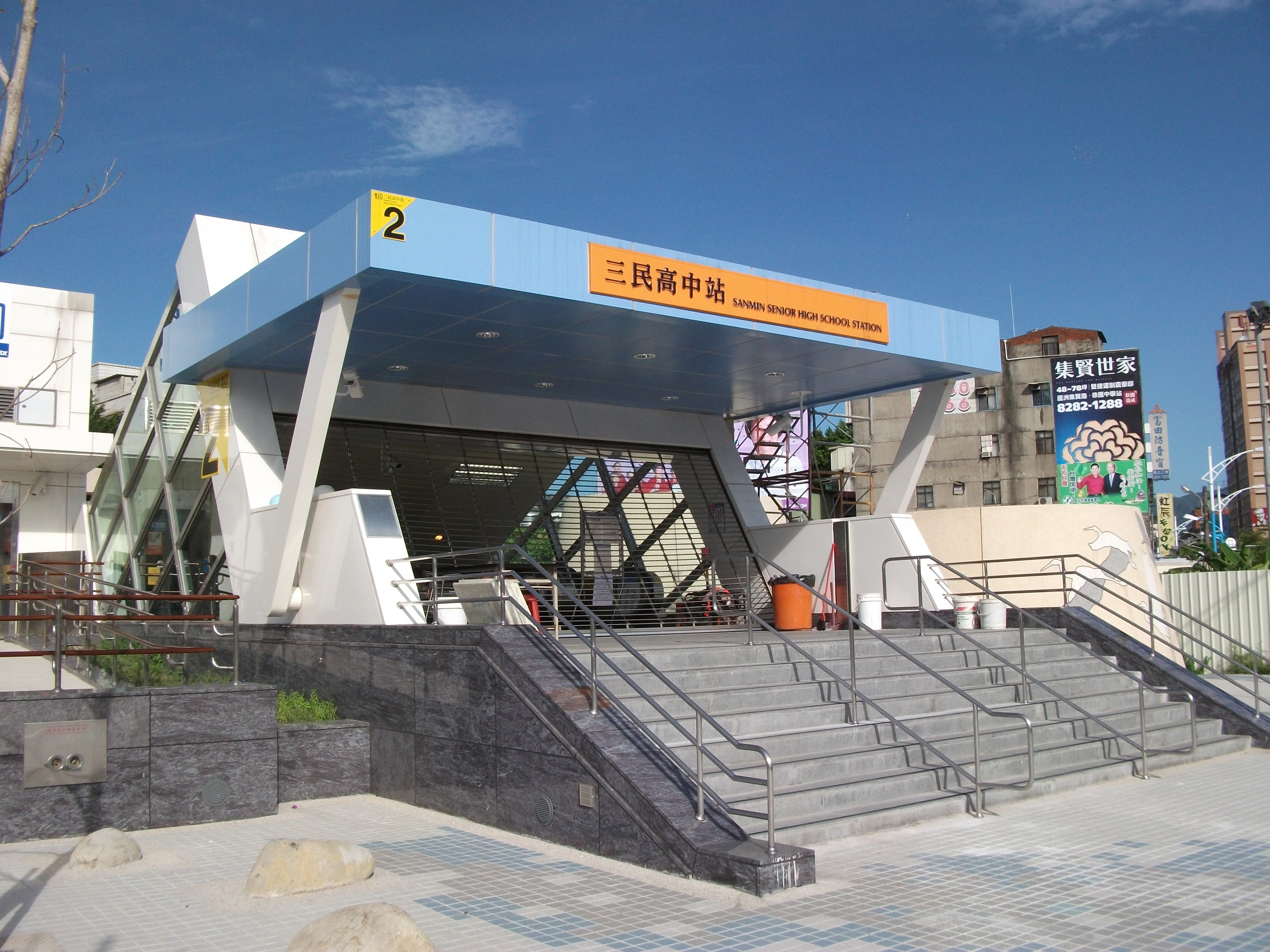 Taipei Metro Orange Line Sanmin Senior High School Station entrance 2